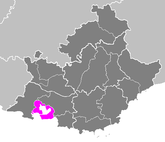 Locator map of the arrondissement of Istres (before 2018) in Bouches-du-Rhône and Provence-Alpes-Côte d'Azur (France).